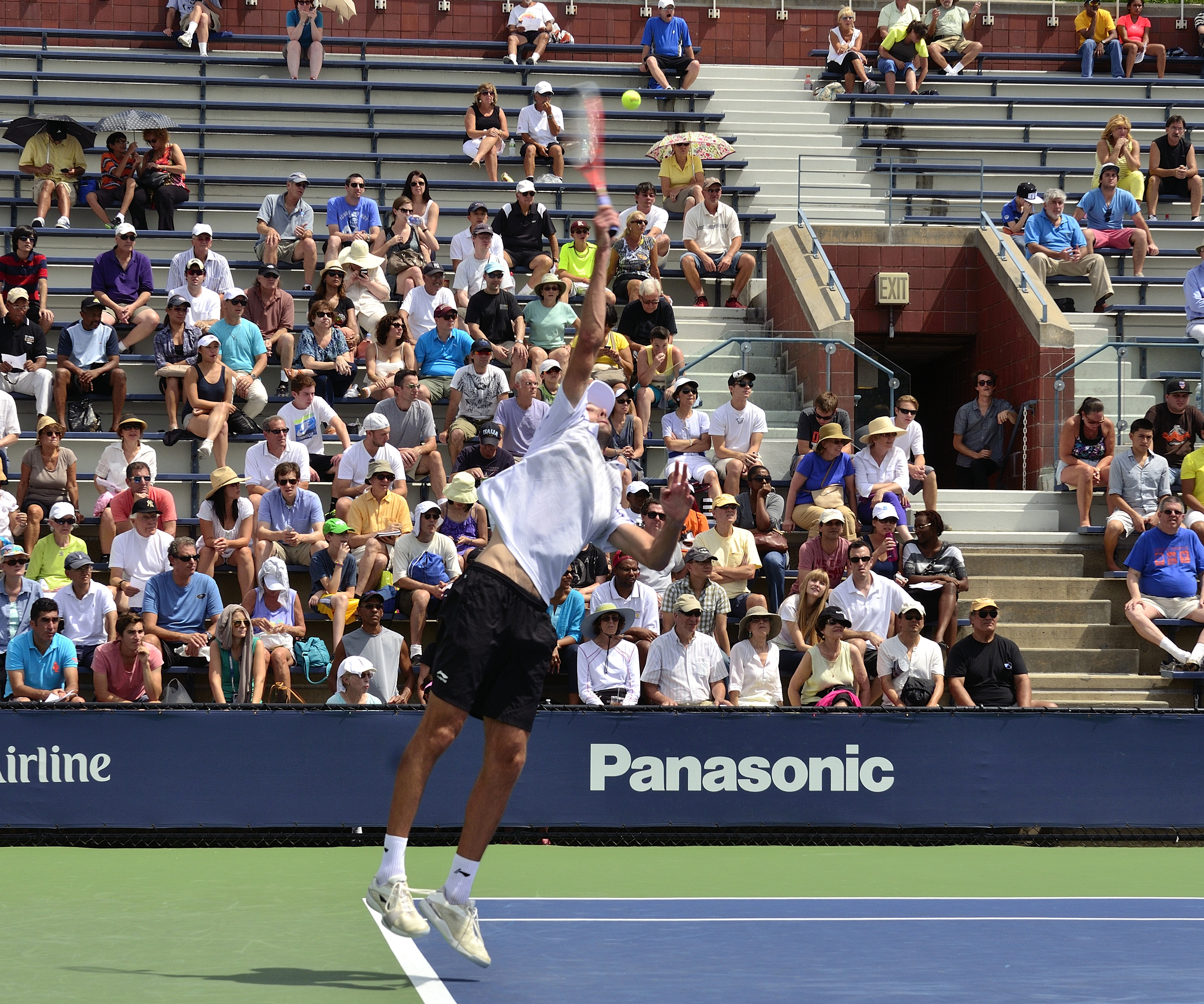 Queens, NY August 23, 2013 Ivo Karlovic (CRO) def. Andrey Gobulev (KAZ)